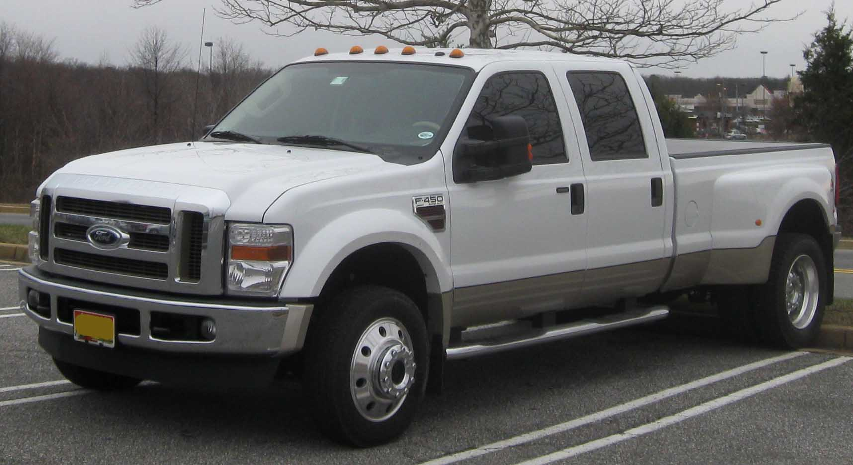 2008-2009 Ford F-450 photographed in Waldorf, Maryland, USA.